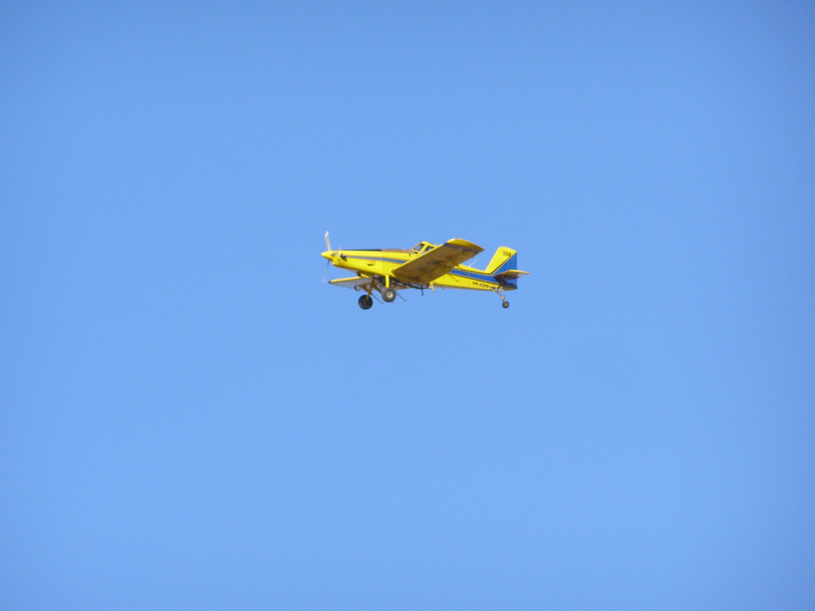 A firefighting aircraft in flight